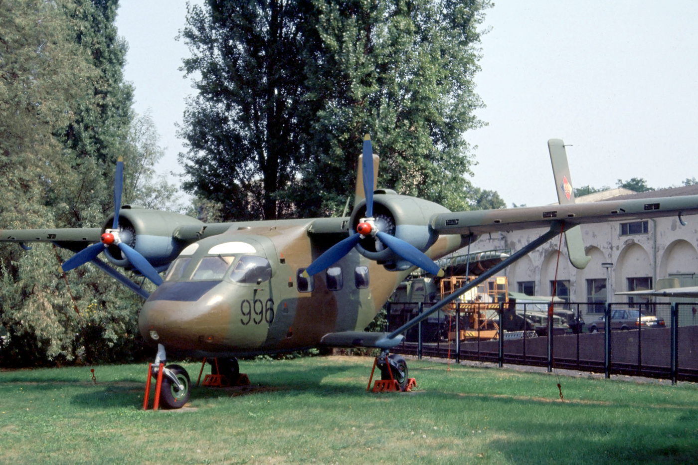 Militärhistorisches Museum Dresden, August 1990. Nice little plane. It's now preserved in the museum at Cottbus.